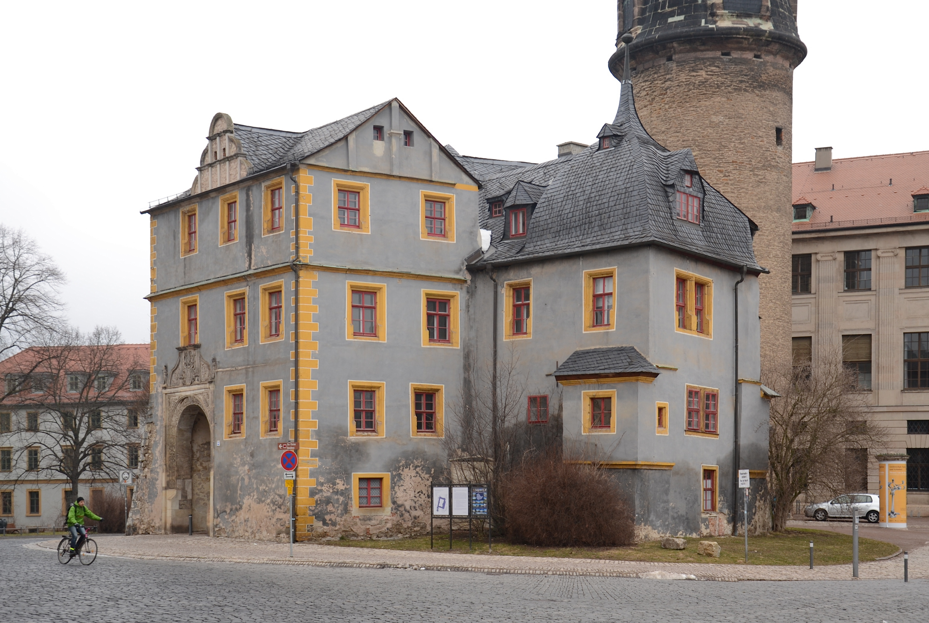 Bastille, Weimar